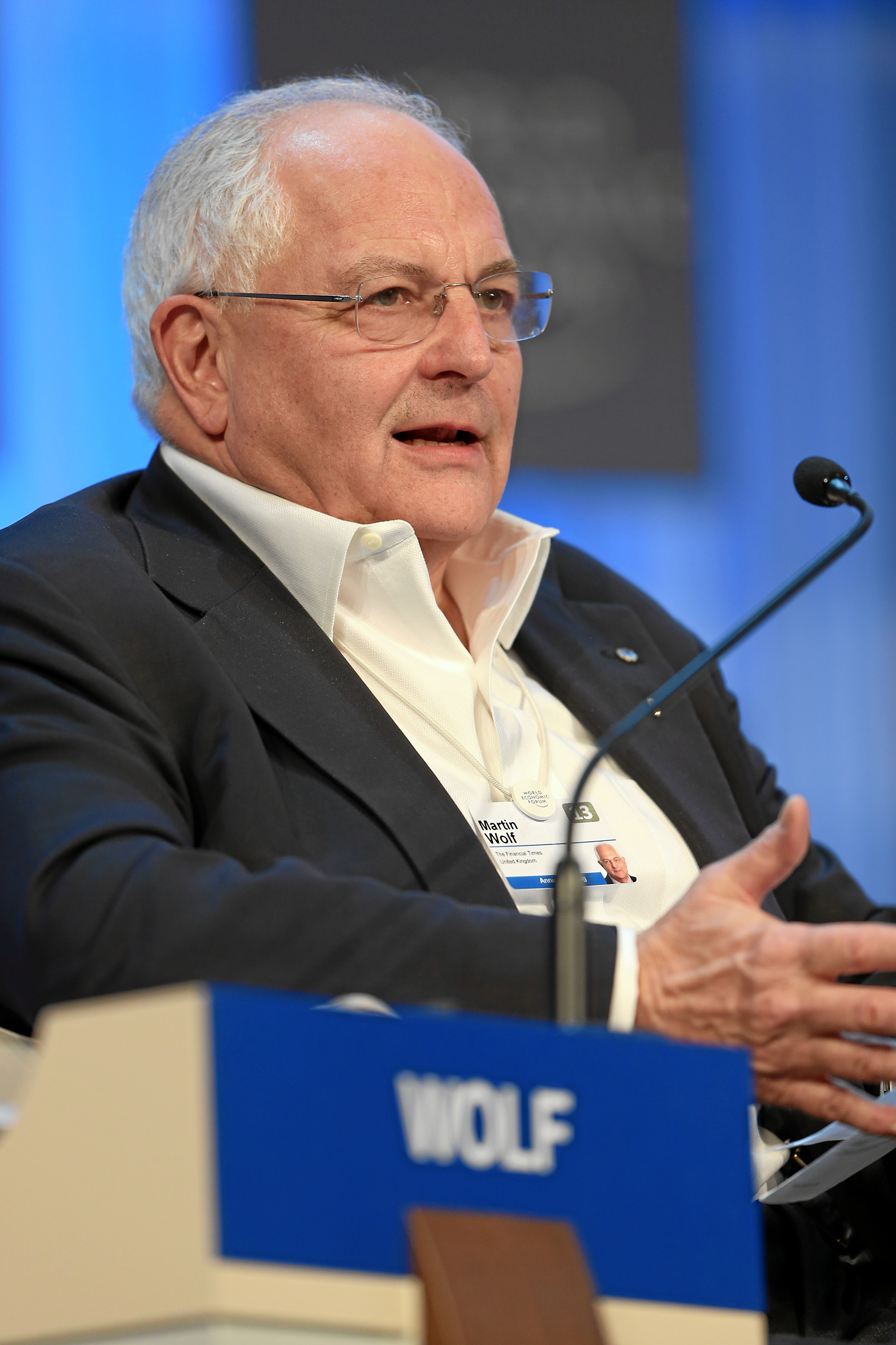 DAVOS/SWITZERLAND, 26JAN13 - Martin Wolf, Associate Editor and Chief Economics Commentator, Financial Times, United Kingdom; Global Agenda Council on New Growth Models is senn during the Session 'The Global Economic Outlook' at the Annual Meeting 2013 of the World Economic Forum in Davos, Switzerland, January 26, 2013.. . Copyright by World Economic Forum. . Moritz Hager